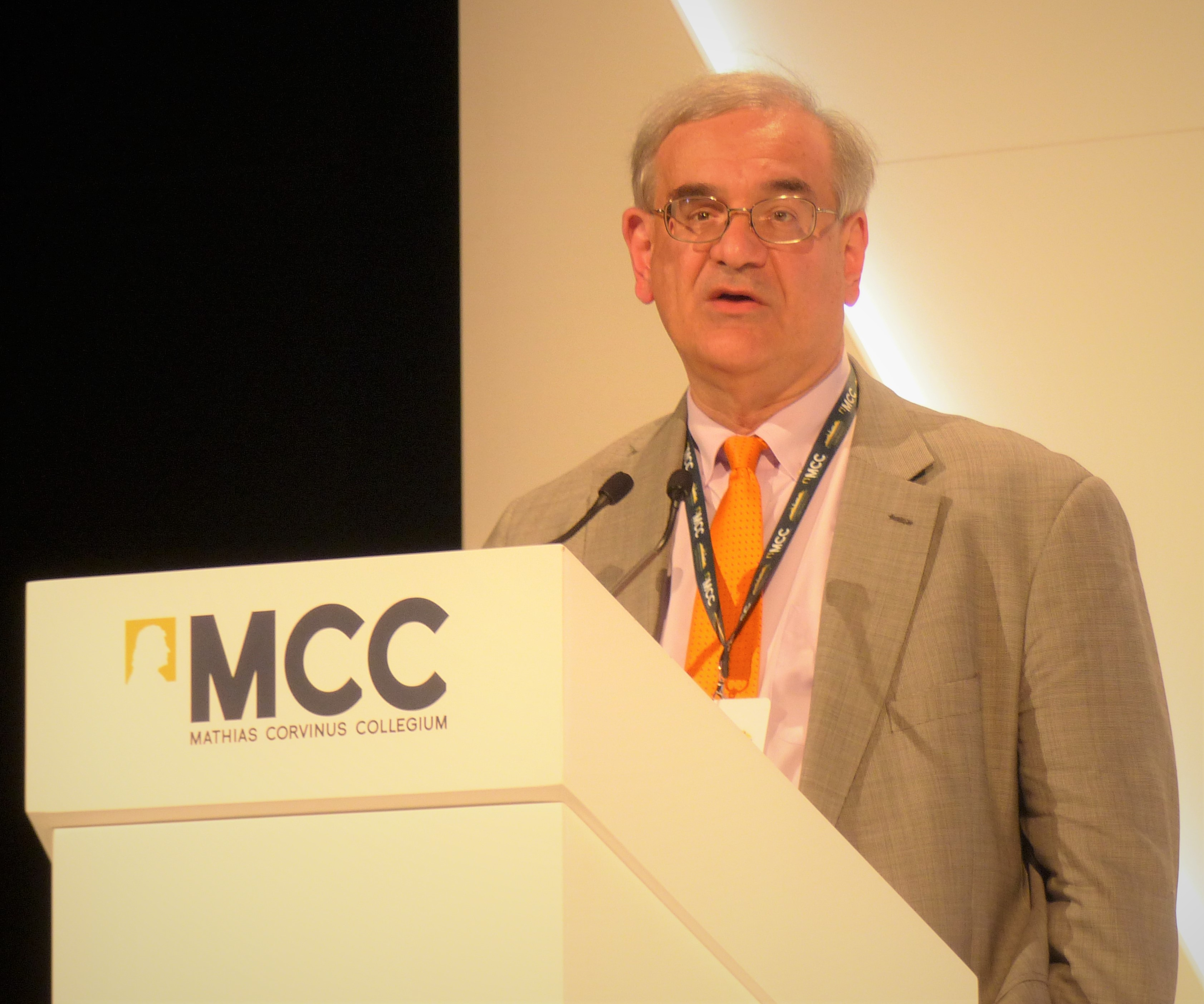 Mark Krikorian Direktor of the Center for Immigration Studies. MCC Budapest Summit on Migration, third day, on the 24th of March, 2019.